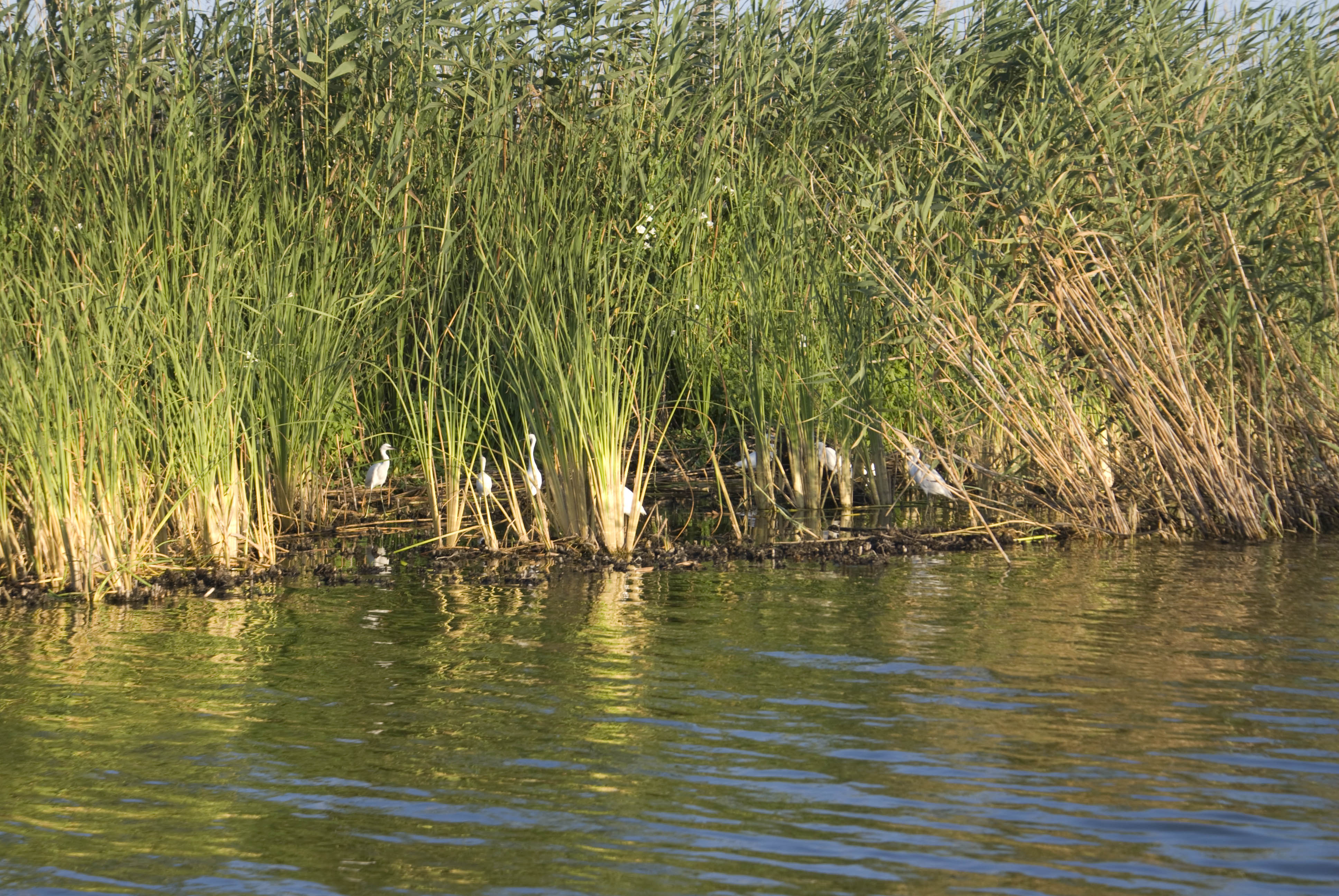 Roseaux en bordure du lac de l'Albufera